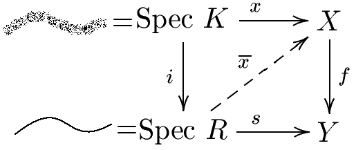 visualization of valuative criterion of proper morphisms